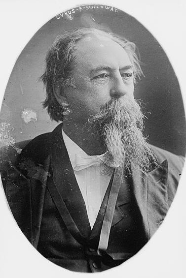 Cyrus Adams Sulloway (1839 - 1917), a Republican member of the United States House of Representatives from New Hampshire